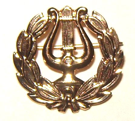 Äidinlyyra, a traditional brooch a secondary school graduate gives to his or her mother on graduation. Originally it is the logo of the Student Union of the University of Helsinki.